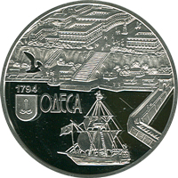 The reverse of commemorative silver coin of Ukraine "220 years of Odessa" (2014)